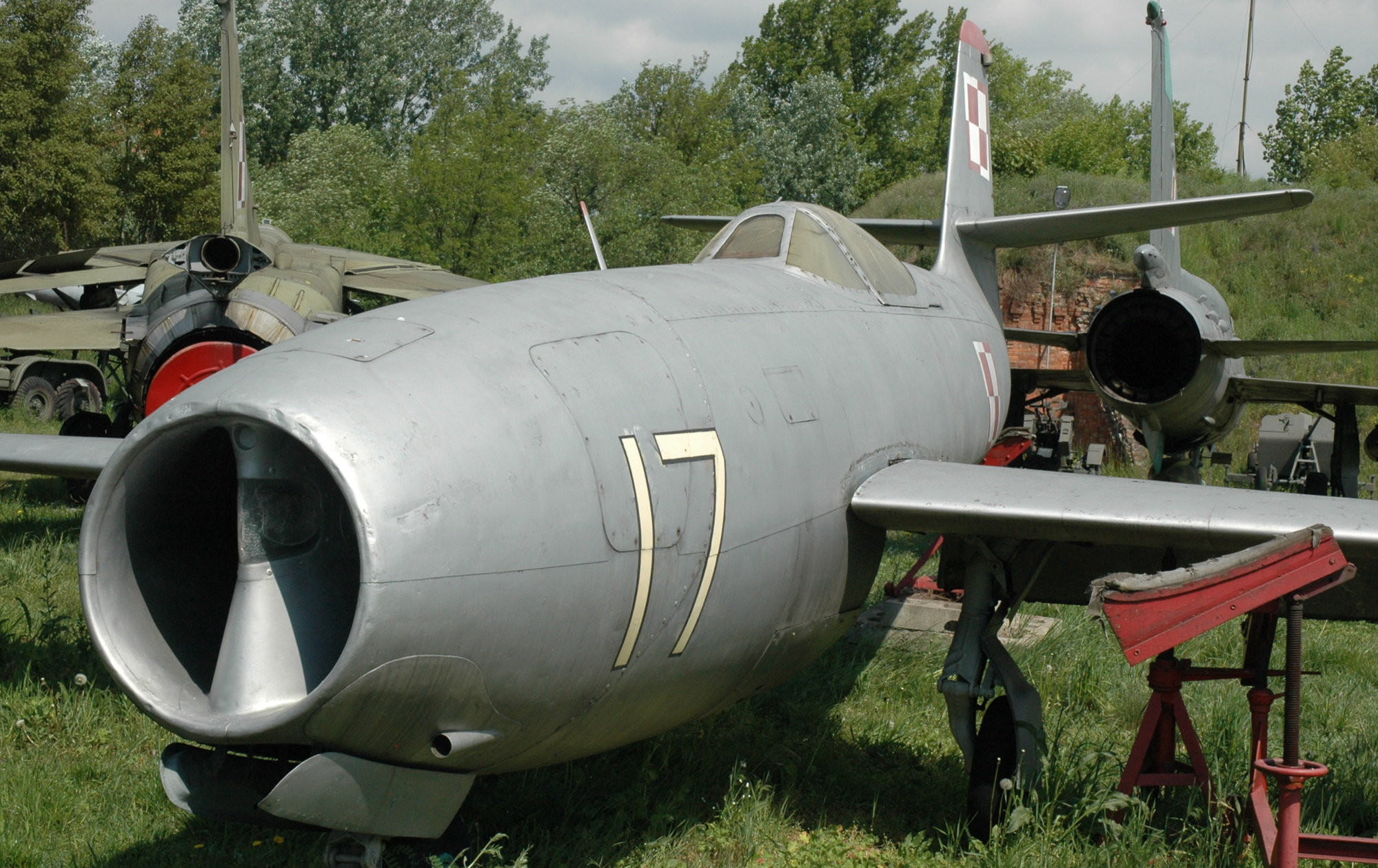 Yakovlev Yak-23 fighter, displayed at the Museum of Polish Military Technology (Czerniakowski Fortress, Warsaw)